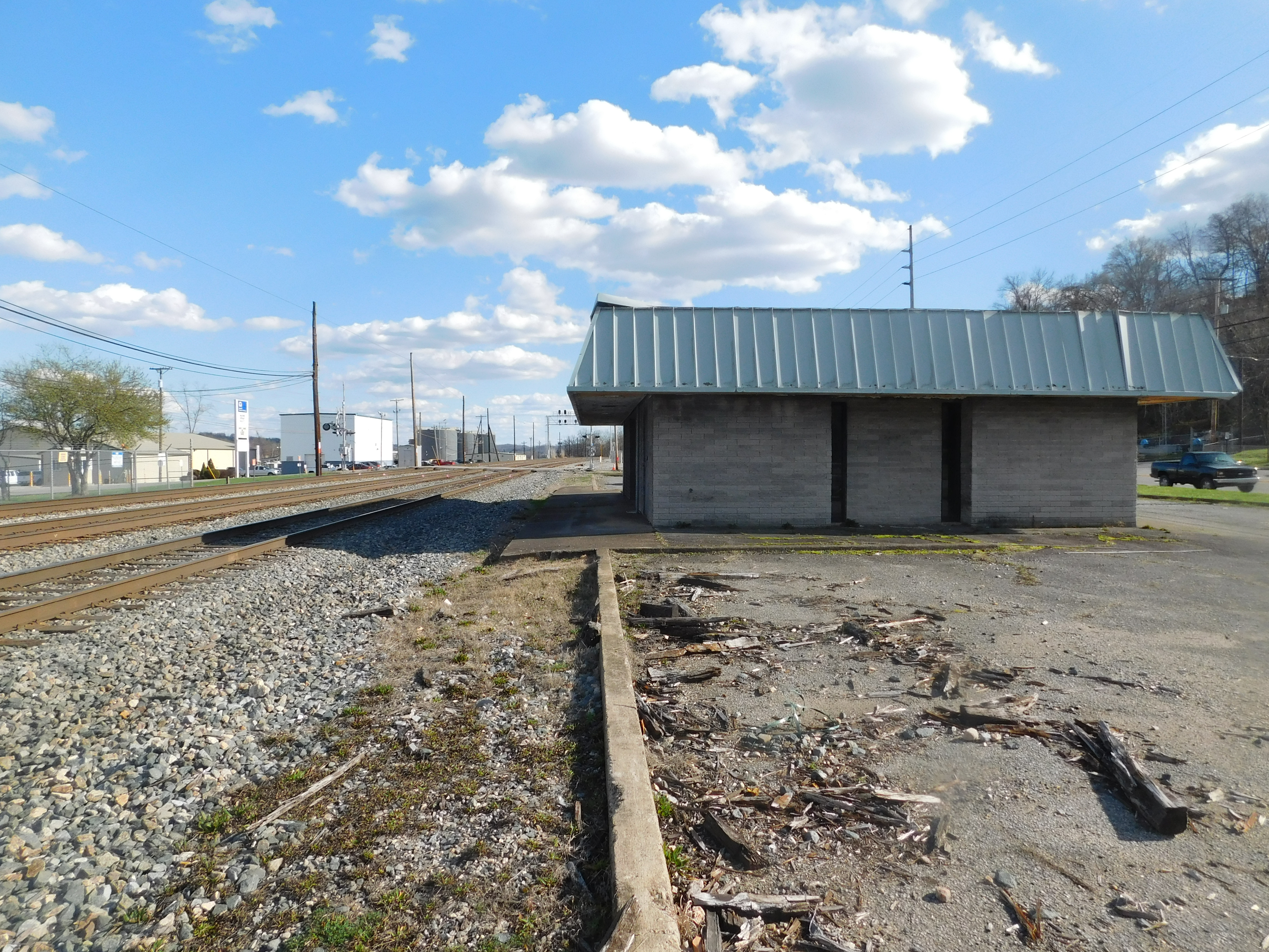 The former Tri-State Station in Catlettsburg, Kentucky in March 2017.